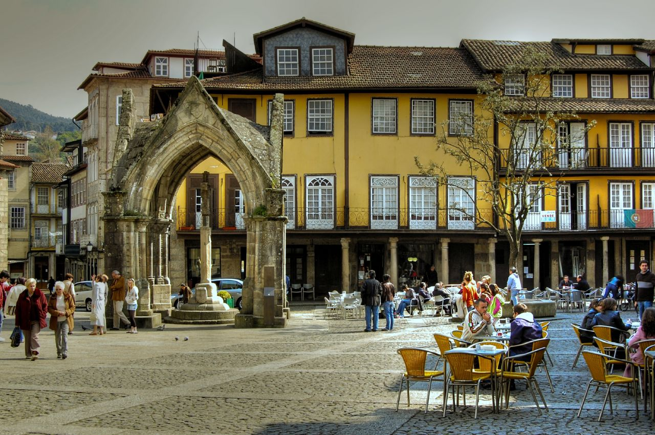 General view of Oliveira square, Guimarães, Portugal.